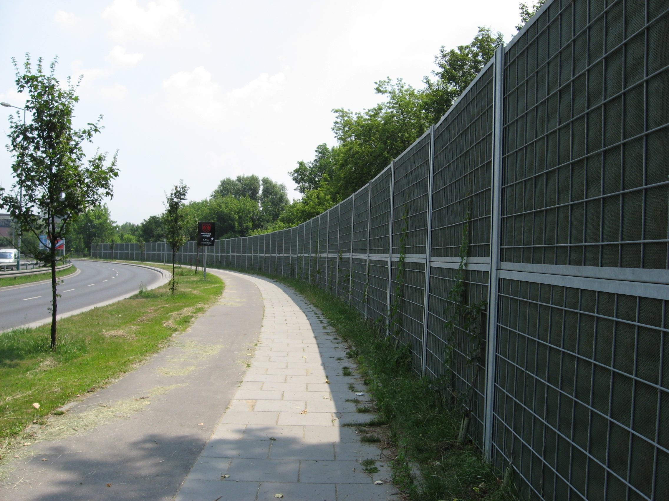 Noise barrier in Poland